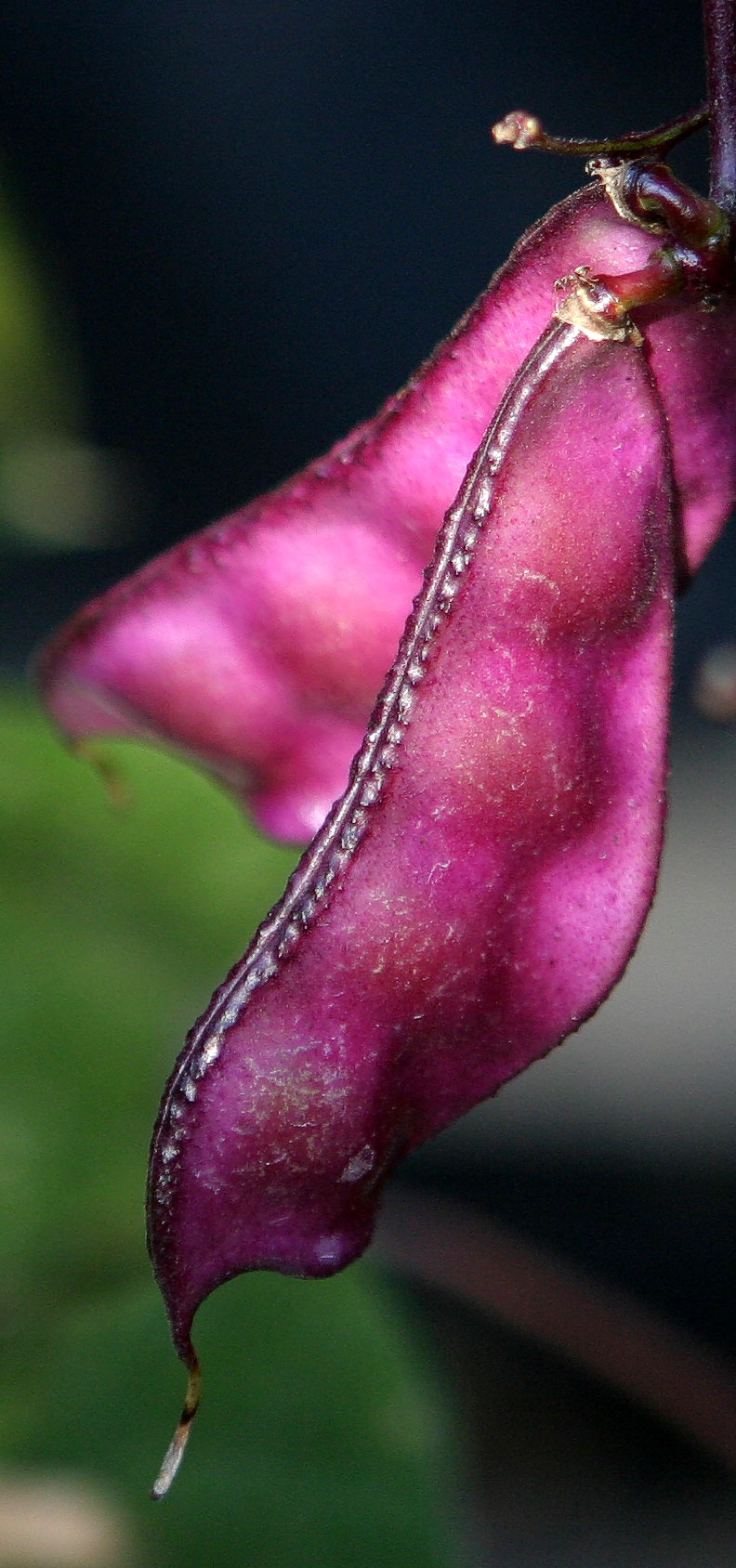 Hyacinth bean